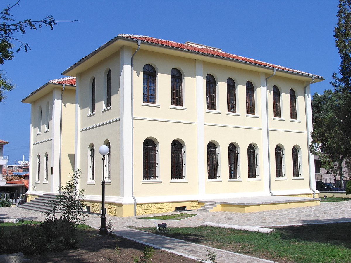 Museum of history in Pomorie